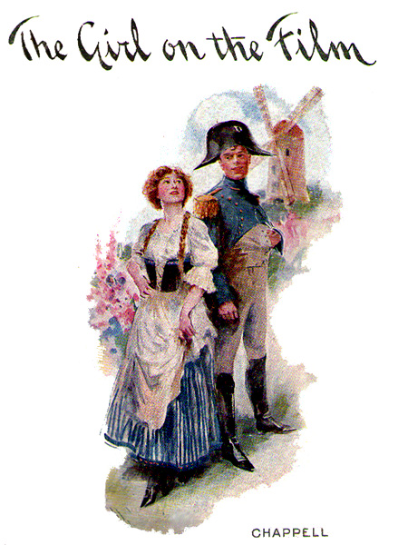 Vocal score cover for The Girl on the Film 1913, at Simon Moss's website